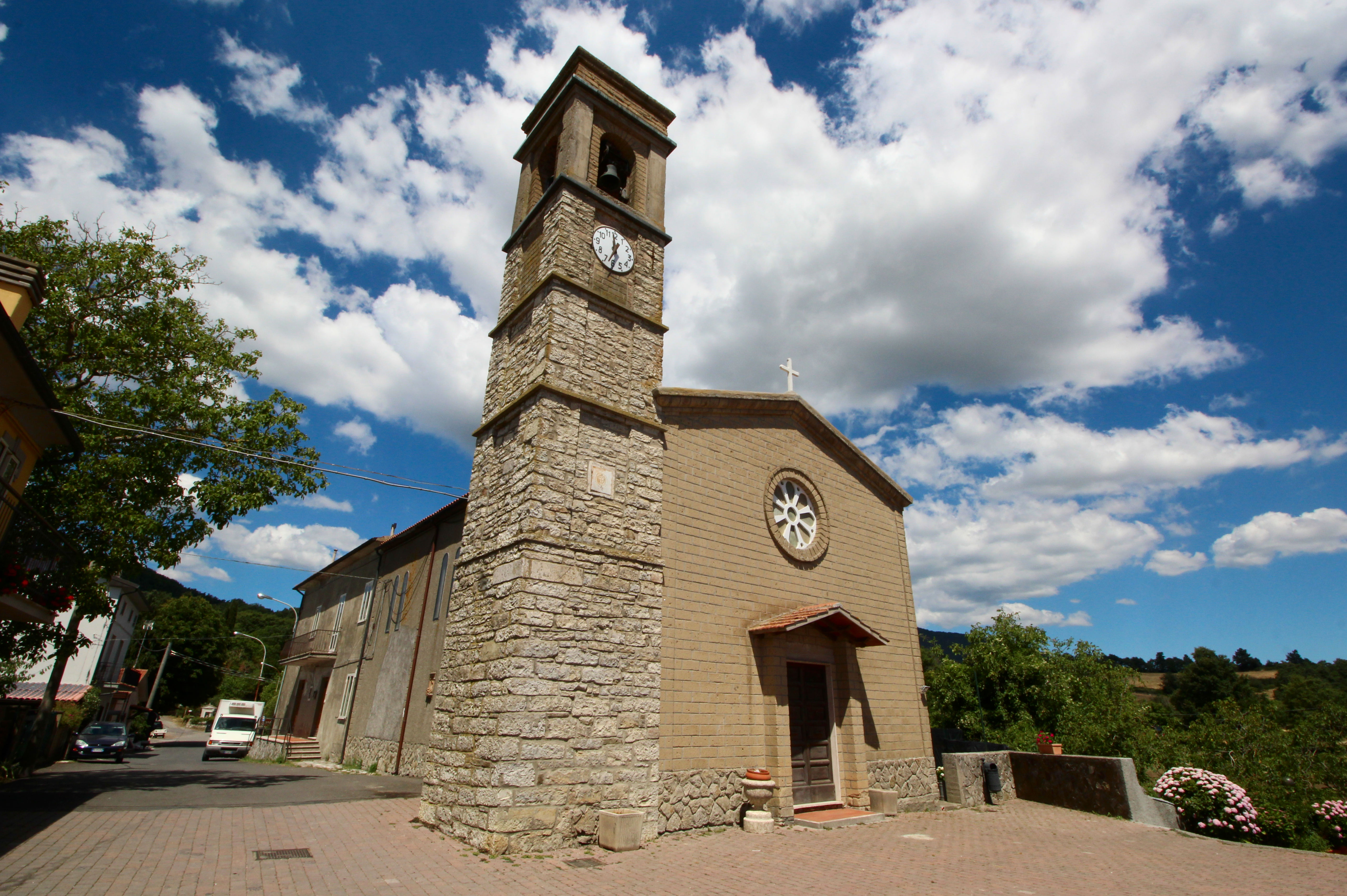 Church San Giacomo, Montevitozzo, hamlet of Sorano, Province of Grosseto, Tuscany, Italy